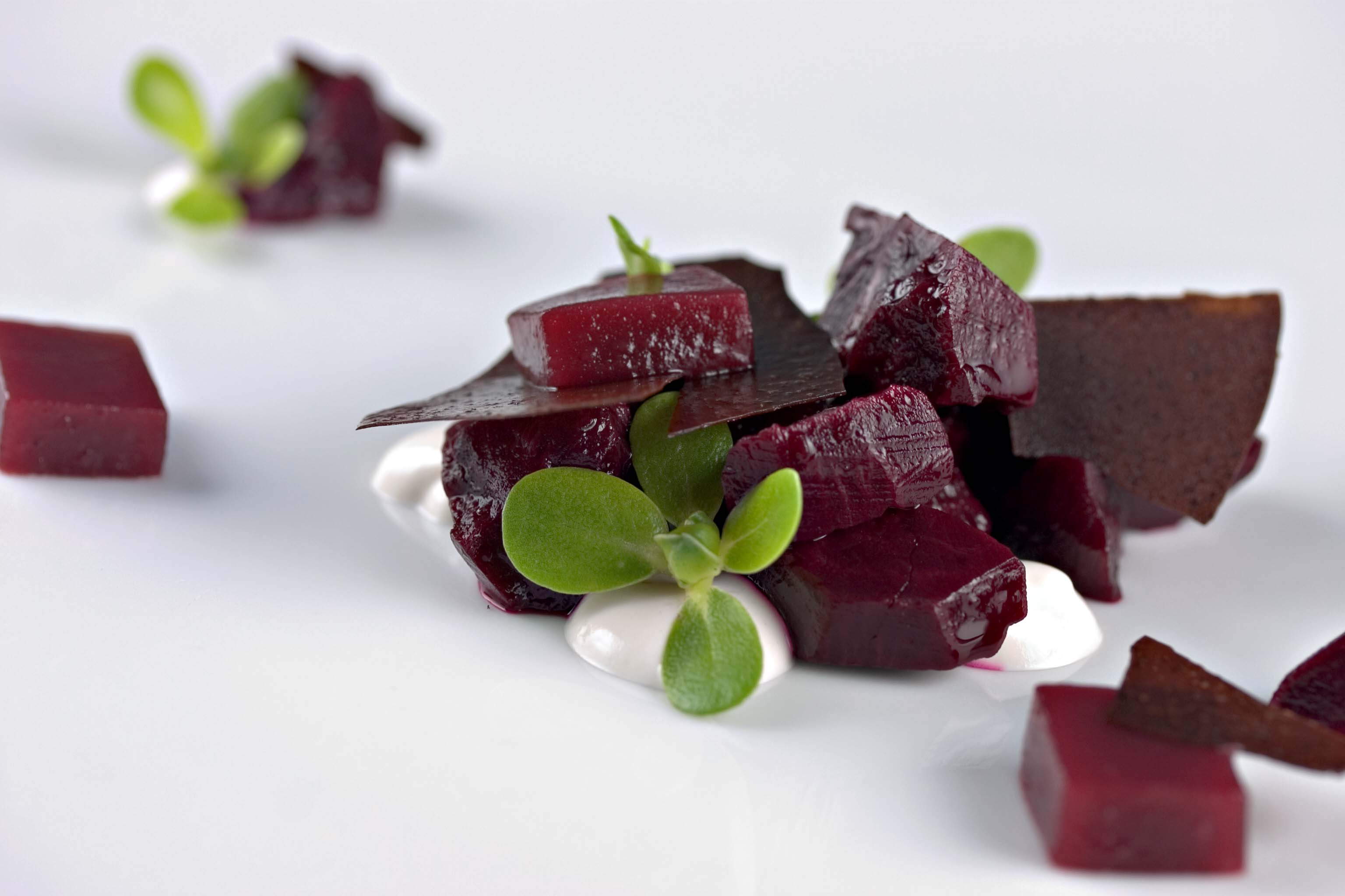 Broken Beet Salad cashew yogurt, olive, cranberries